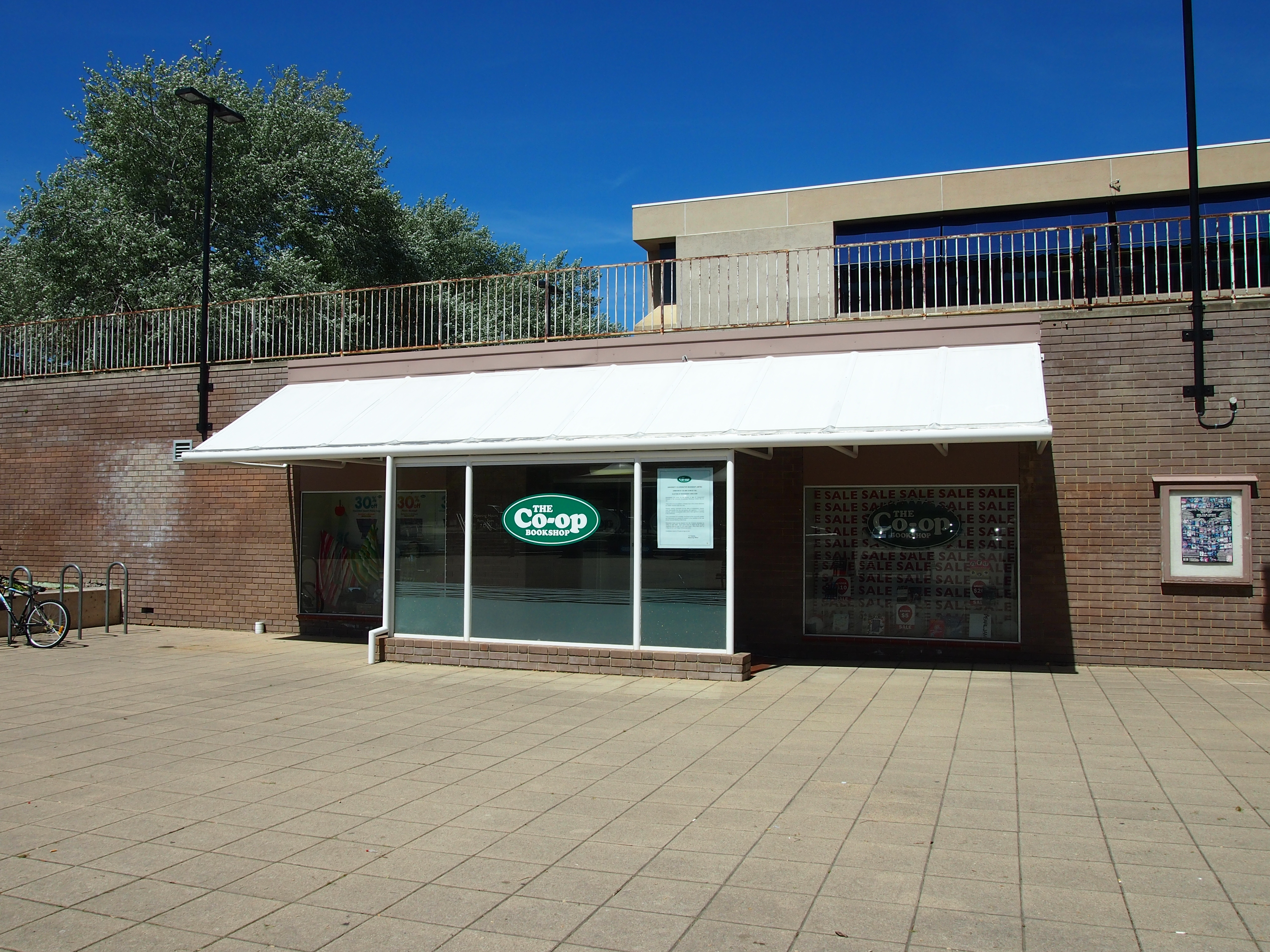 The entrance to the ANU branch of The Co-op Bookshop